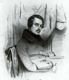 Portrait of Gustave Vaëz